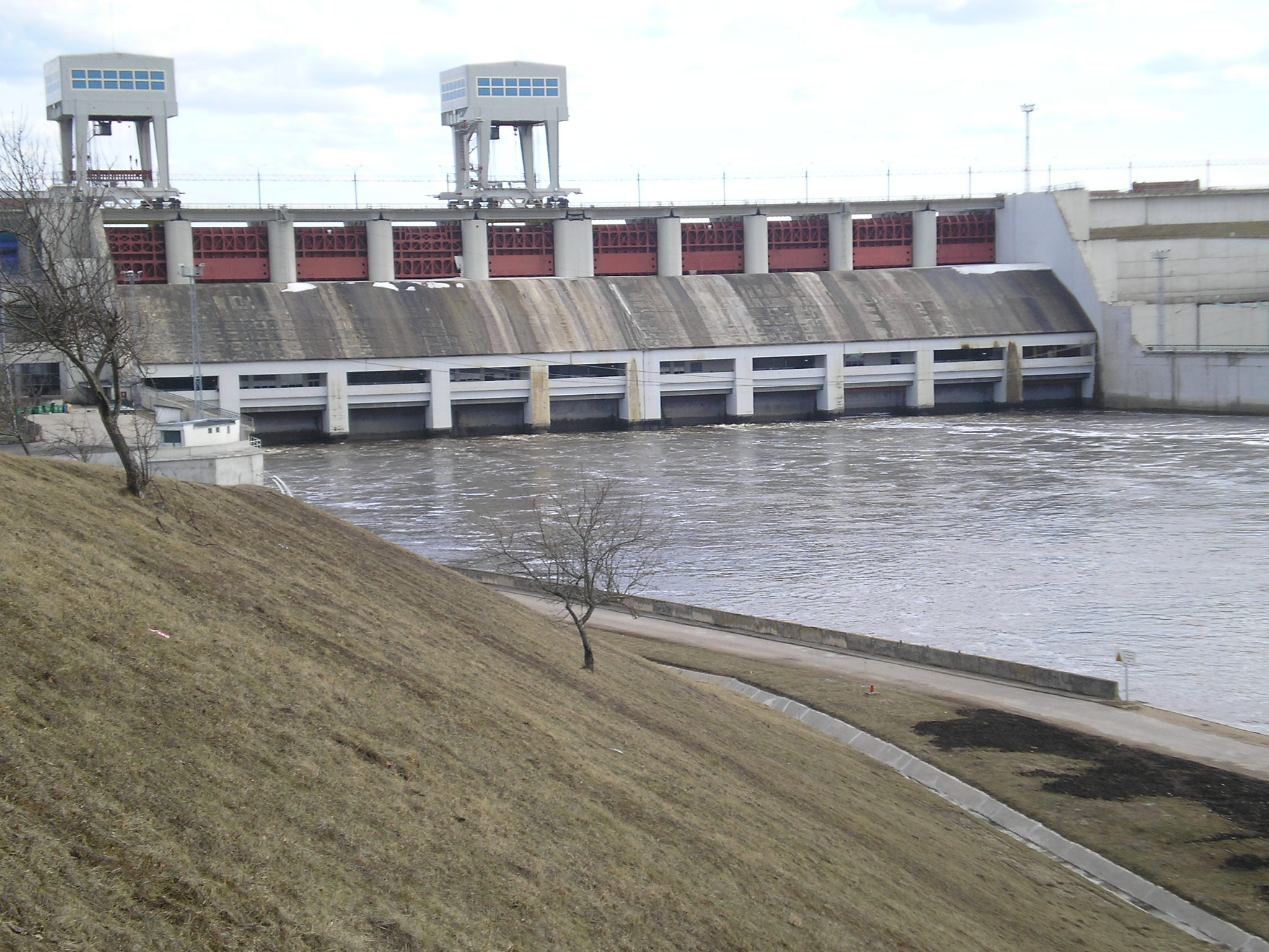 Pļaviņas Hydro Power Plant